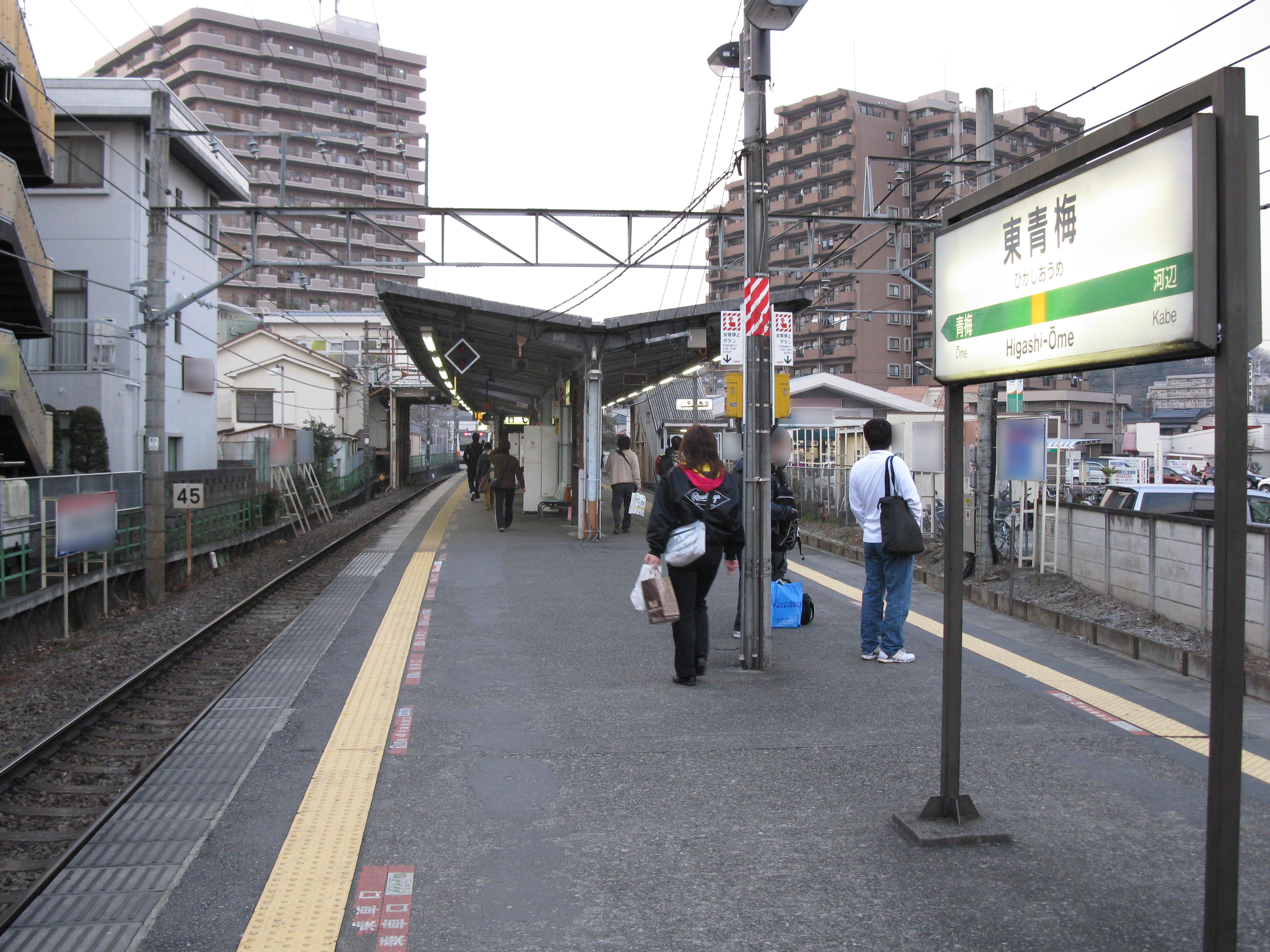 Higashi-Ōme Station platform (East Japan Railway Ōme Line)